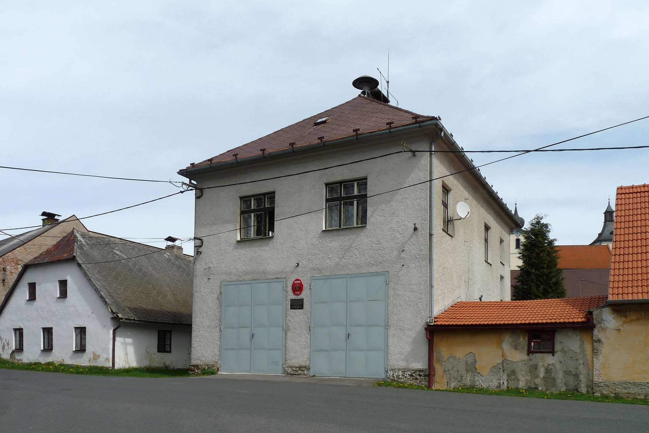 Former synagogue in the village of Velhartice, Klatovy District, Czech Republic, rebuilt to a fire station